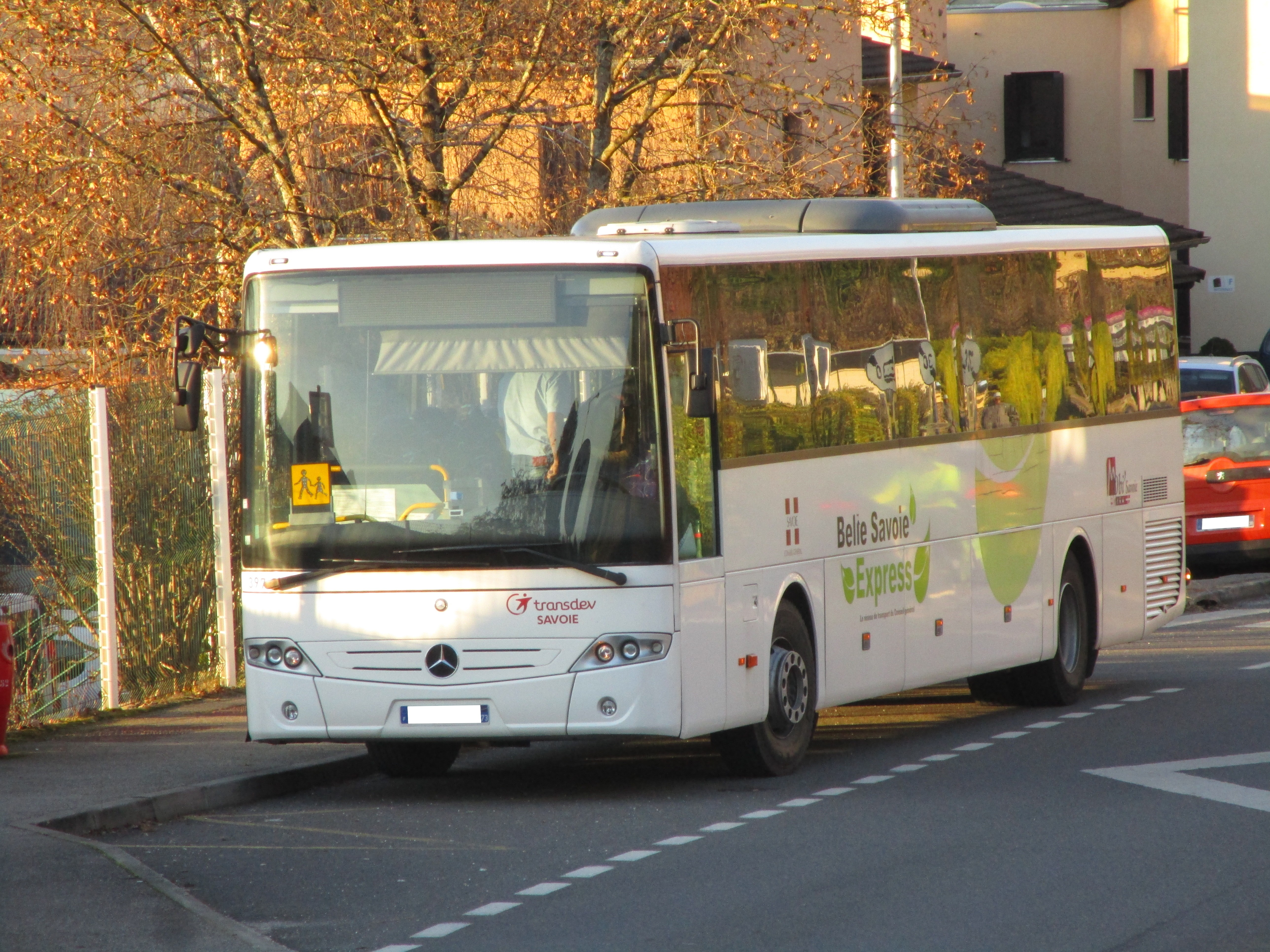 The bus Mercedes-Benz Intouro n°397 of Belle Savoie Express at the call APEI in Challes-les-Eaux on December 8, 2016.